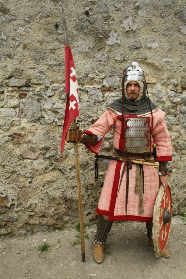 Reenactment of turcopole from 12th century.